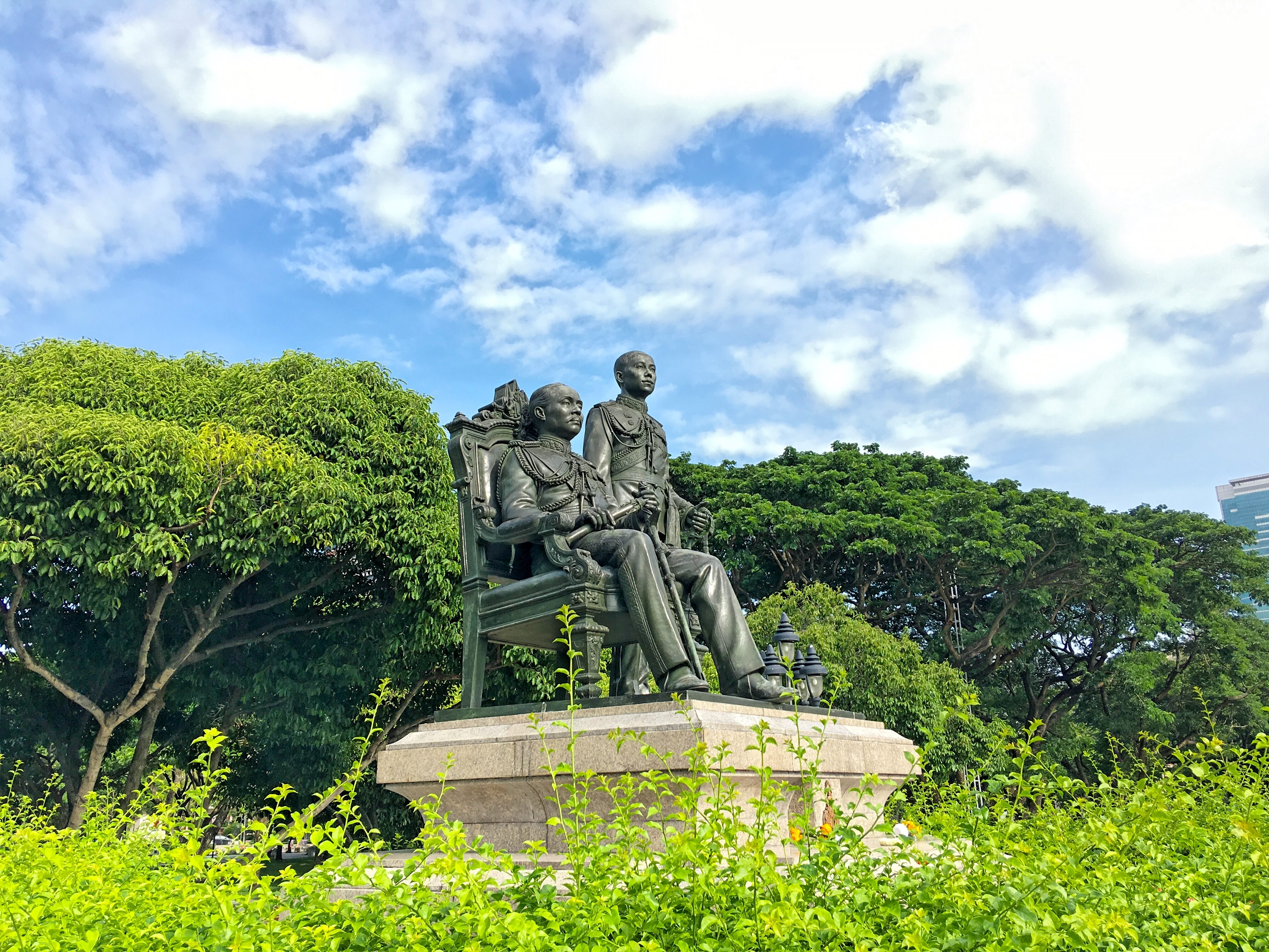 The statue of King Rama V and King Rama VI, the founder of Chulalongkorn University, at the central area of Chulalongkorn University.